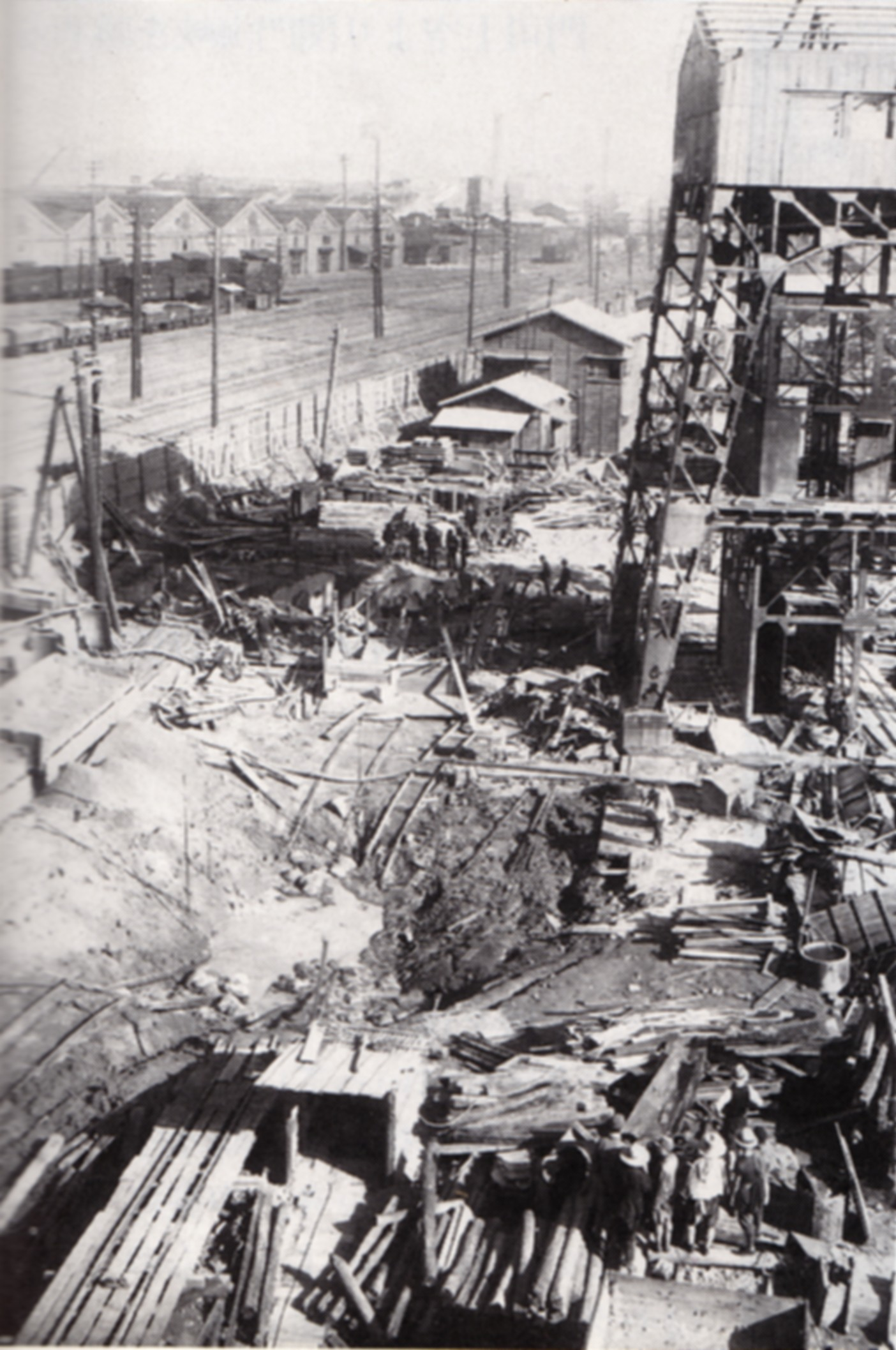 Blow out accident at pneumatic-method section of Honshu-bound track of Kammon railway tunnel.